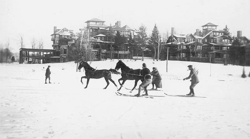 In the background the Lake Placid Club (New York State). In the foreground a group ski joring